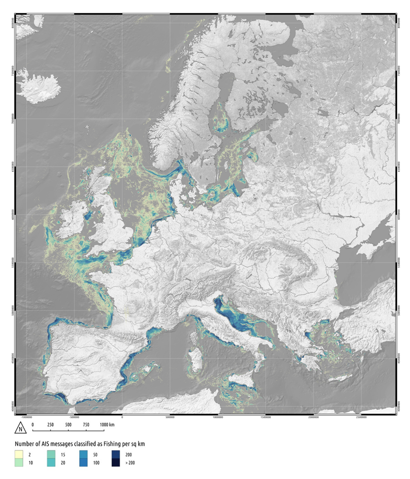 Fishing intensity by EU trawlers greater than 15 m in length using Automatic Identification System data in the period October 2014 – September 2015. (see Main Map for full resolution). Published in: Vespe M., Gibin M., Alessandrini A., Natale F. Mazzarella F., Osio G., ‘Mapping EU fishing activities using ship tracking data’, Journal of Maps, (see Main Map for full resolution).